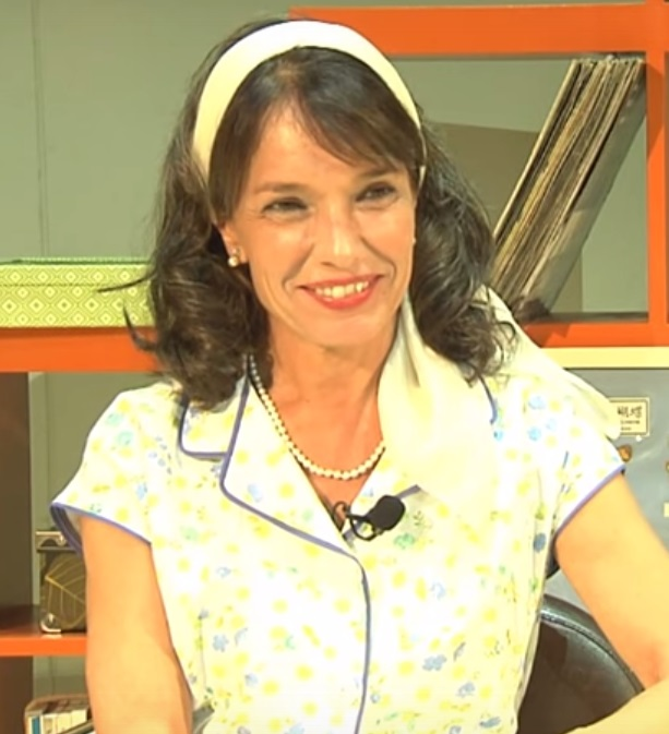 Spanish Actress Susana Hernández